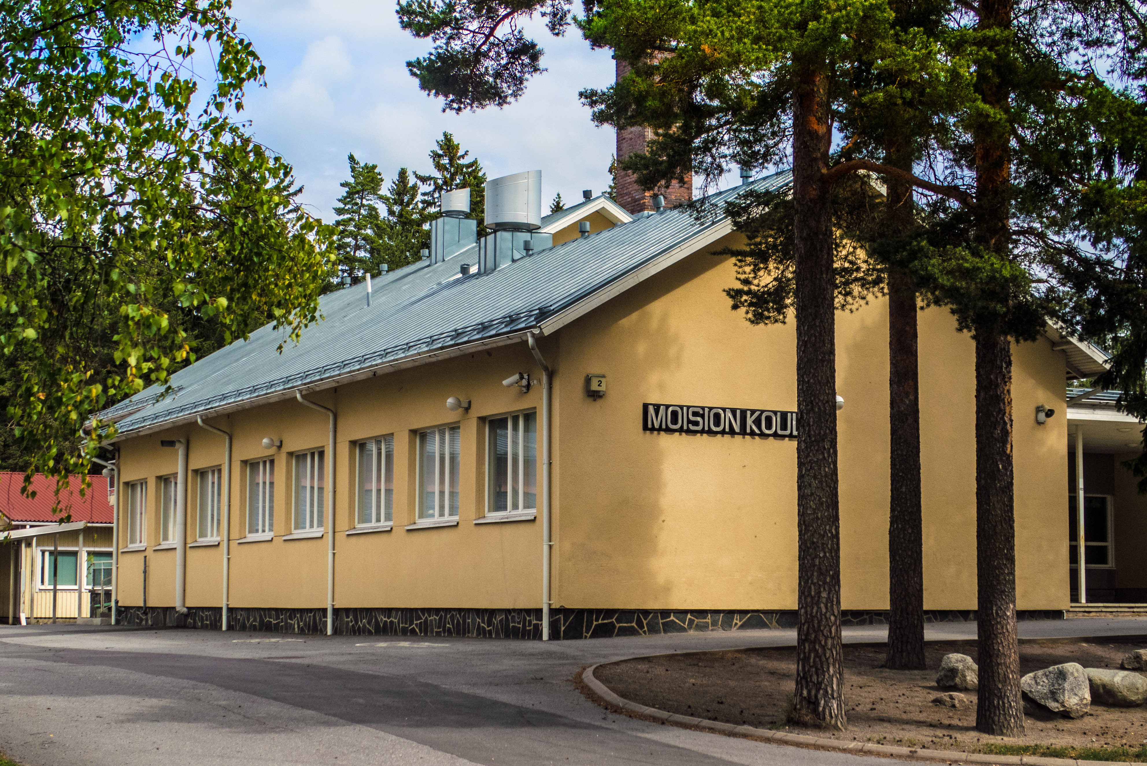 Primary school in Moisio, Turku, Finland. Various buildings completed in 1955, 1961, 1997, 2003, and 2005.